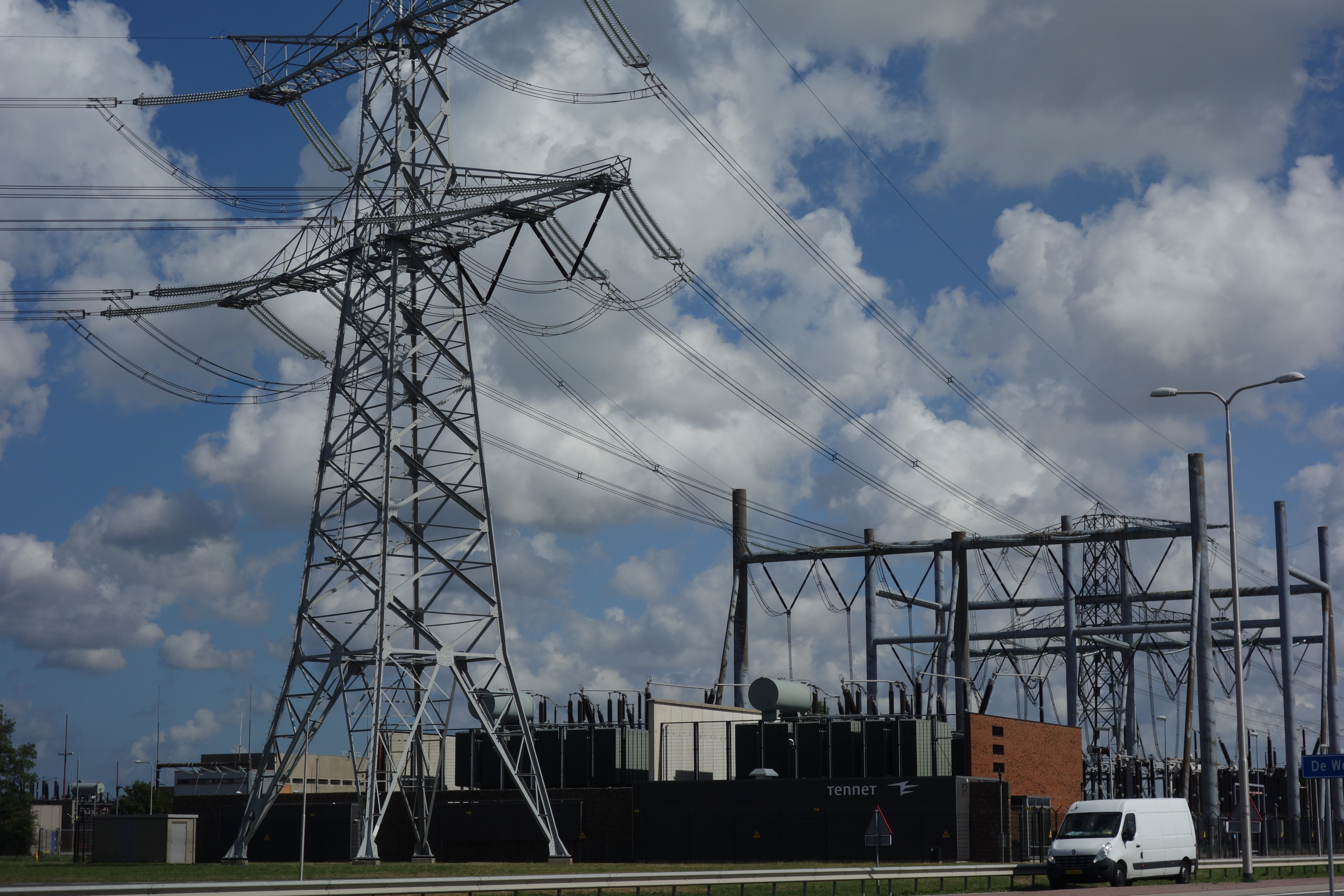 Westerlee substation (380 kV, TenneT) in Naaldwijk, Westland (the Netherlands), 2018